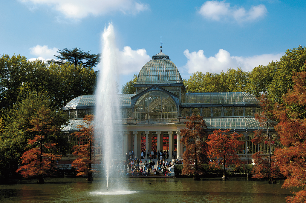 El Retiro This photograph can be used for publications, including this copyright statement: “©PromoMadrid, author Max Alexander”. Esta fotografía puede usarse en publicaciones, incluyendo la declaración “©PromoMadrid, autor Max Alexander”.